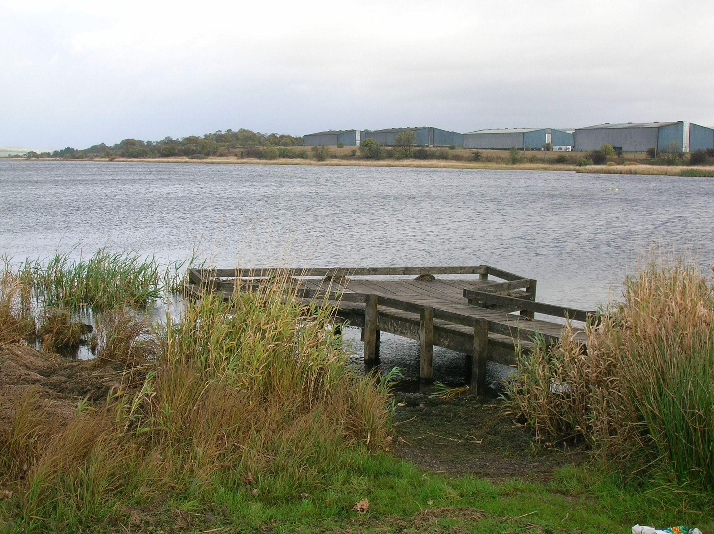 A small pier at the south end of Kilbirnie Loch, North Ayrshire, Scotland.